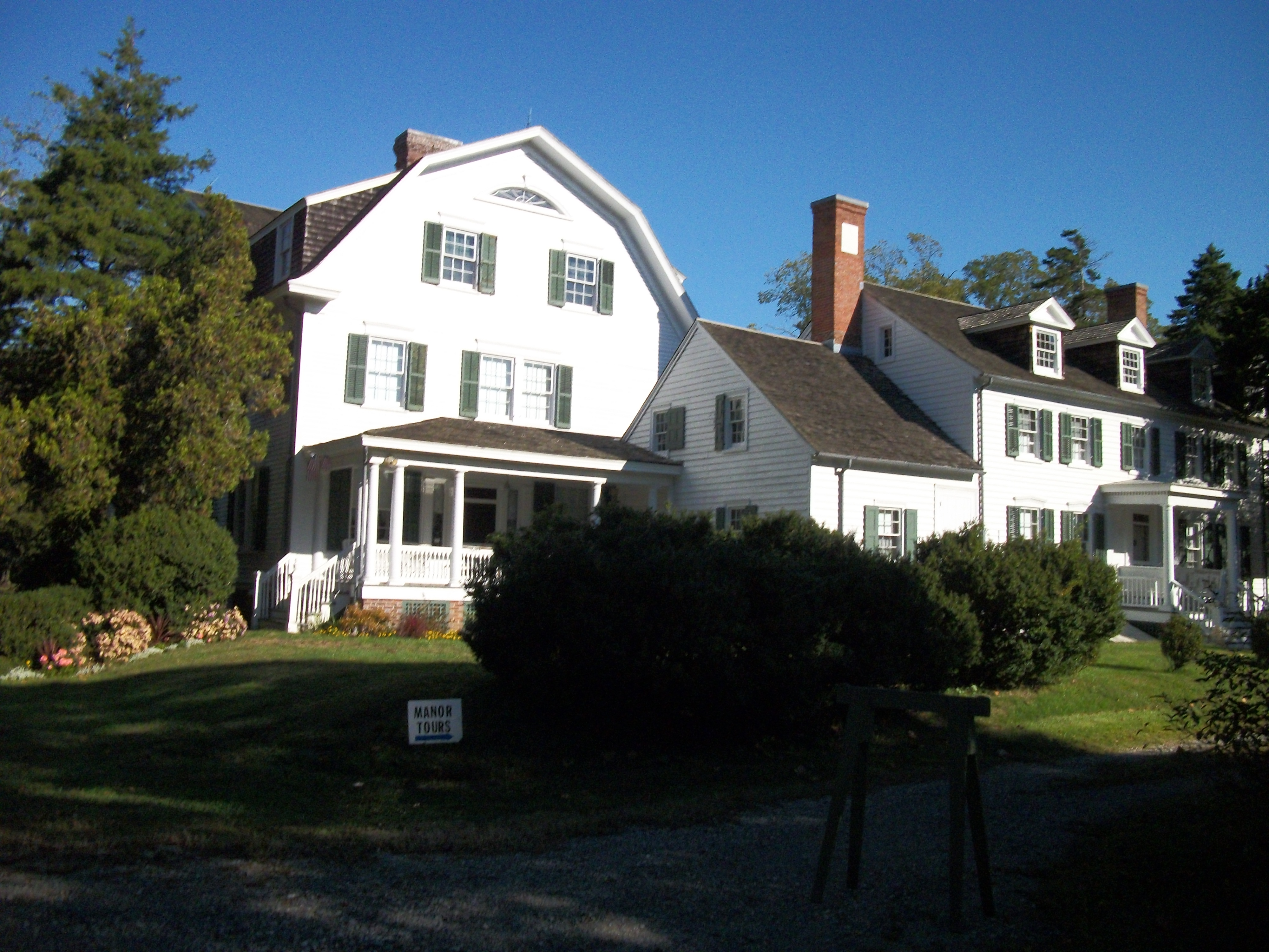 The historic Sagtikos Manor mansion in West Bay Shore, New York as seen from the driveway.